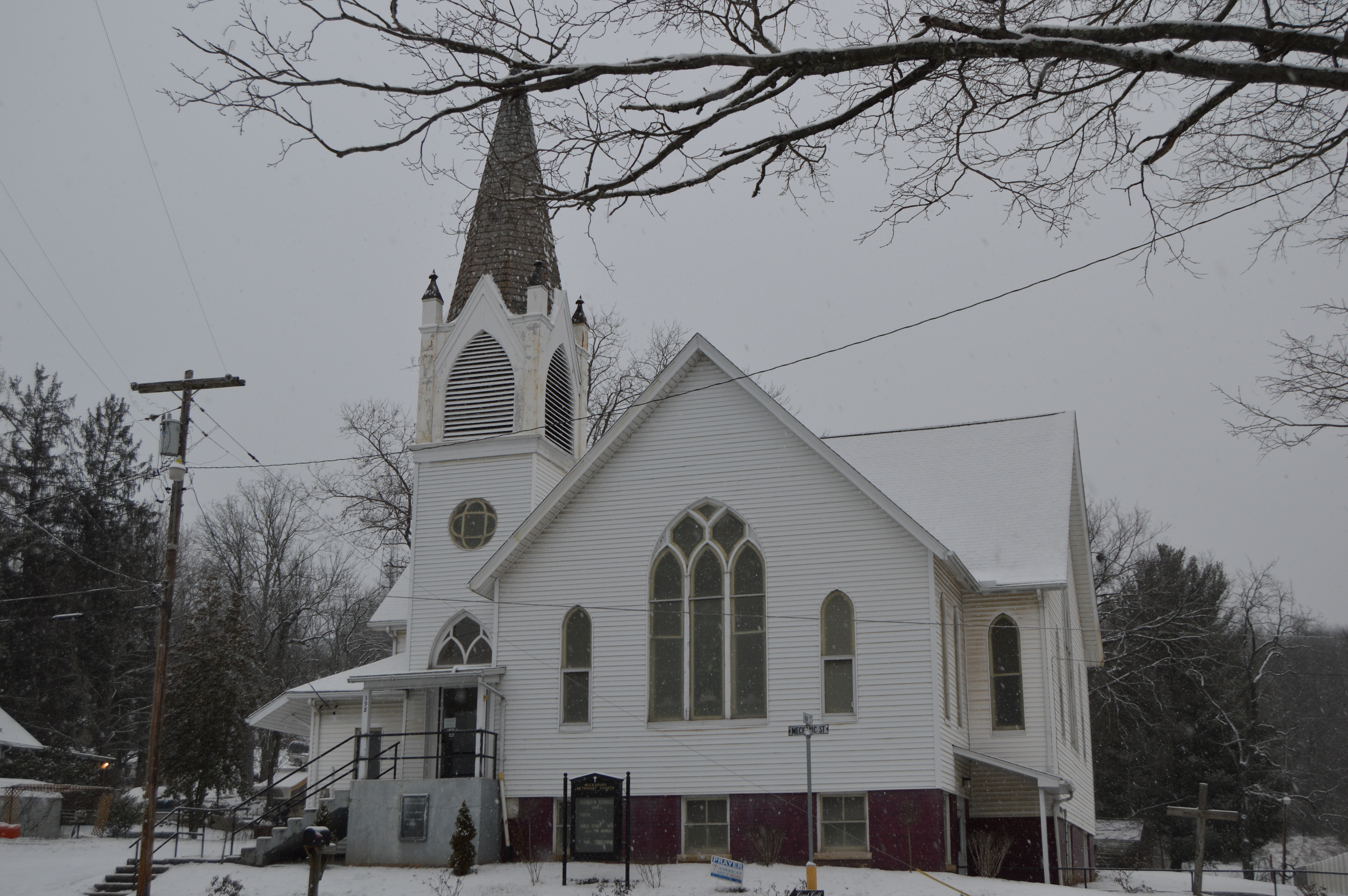 Front of the Macksburg United Methodist Church, located at 390 Mechanic Street in Macksburg, Ohio, United States.